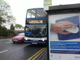 A picture of Stagecoach 18382